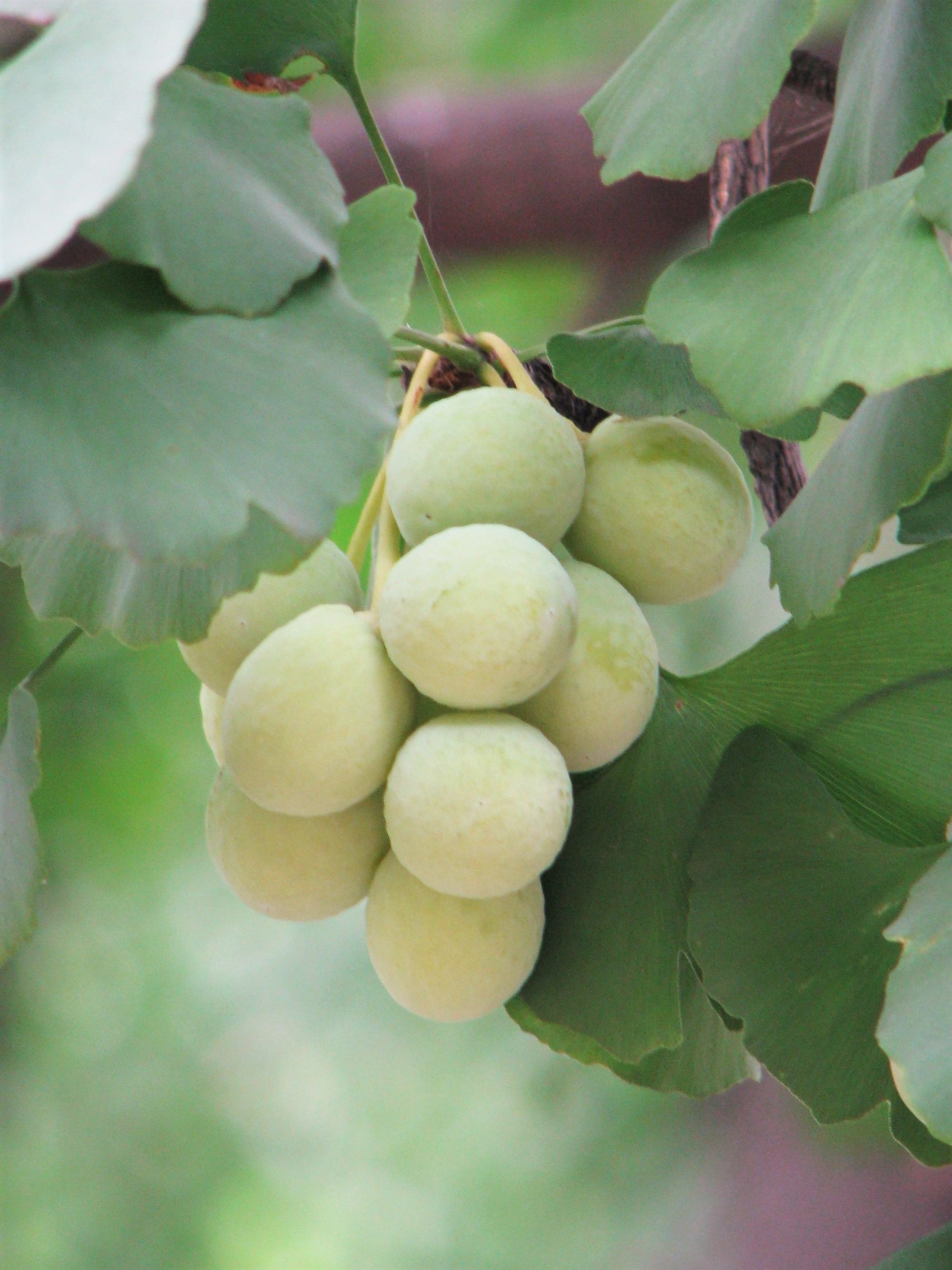 Maidenhair Tree, Ginkgo tree (Ginkgo biloba), fruits, tree cultivated in Wrocław University Botanical Garden, Wrocław, Poland.